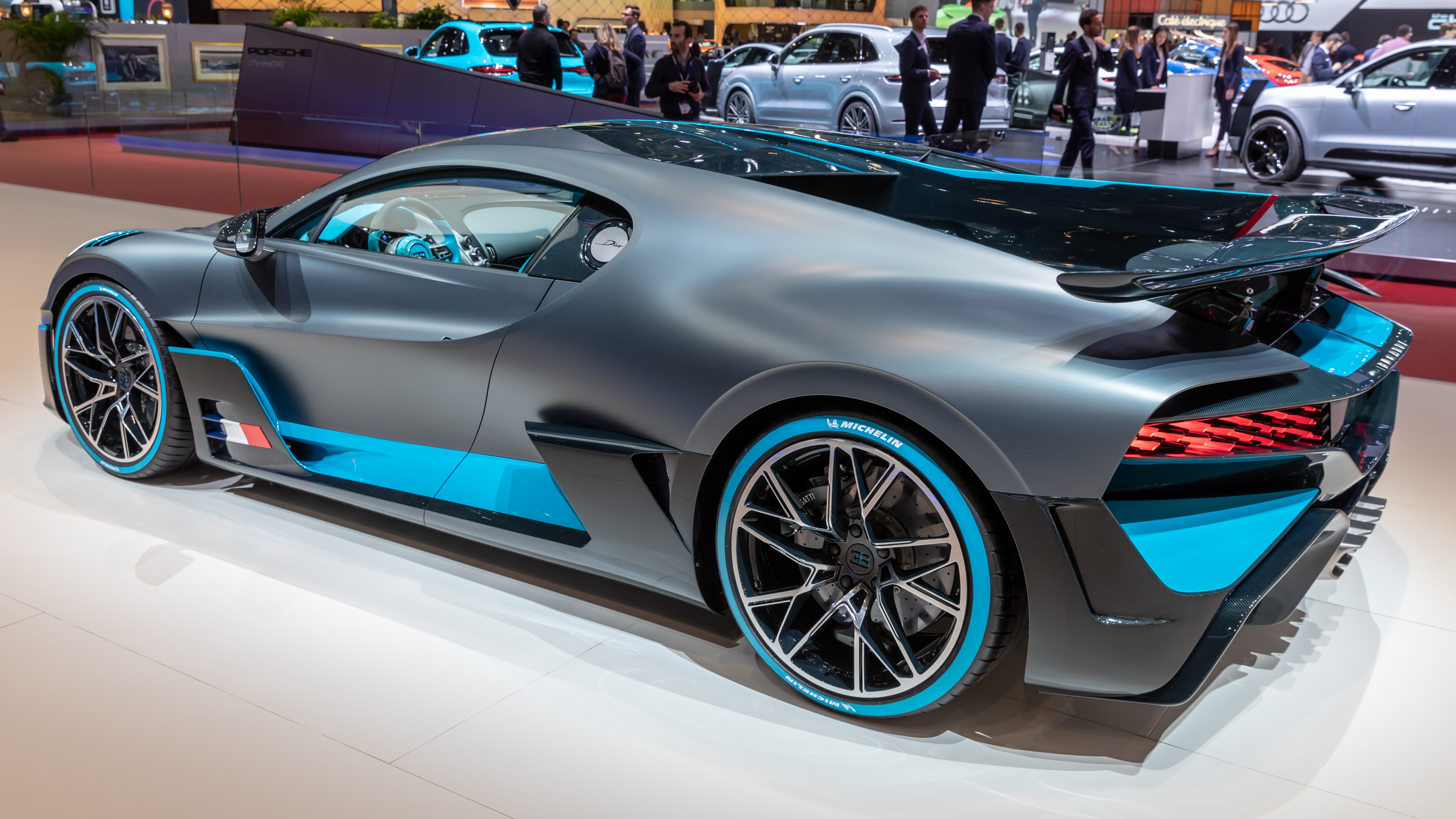 Bugatti Divo at Geneva International Motor Show 2019, Le Grand-Saconnex